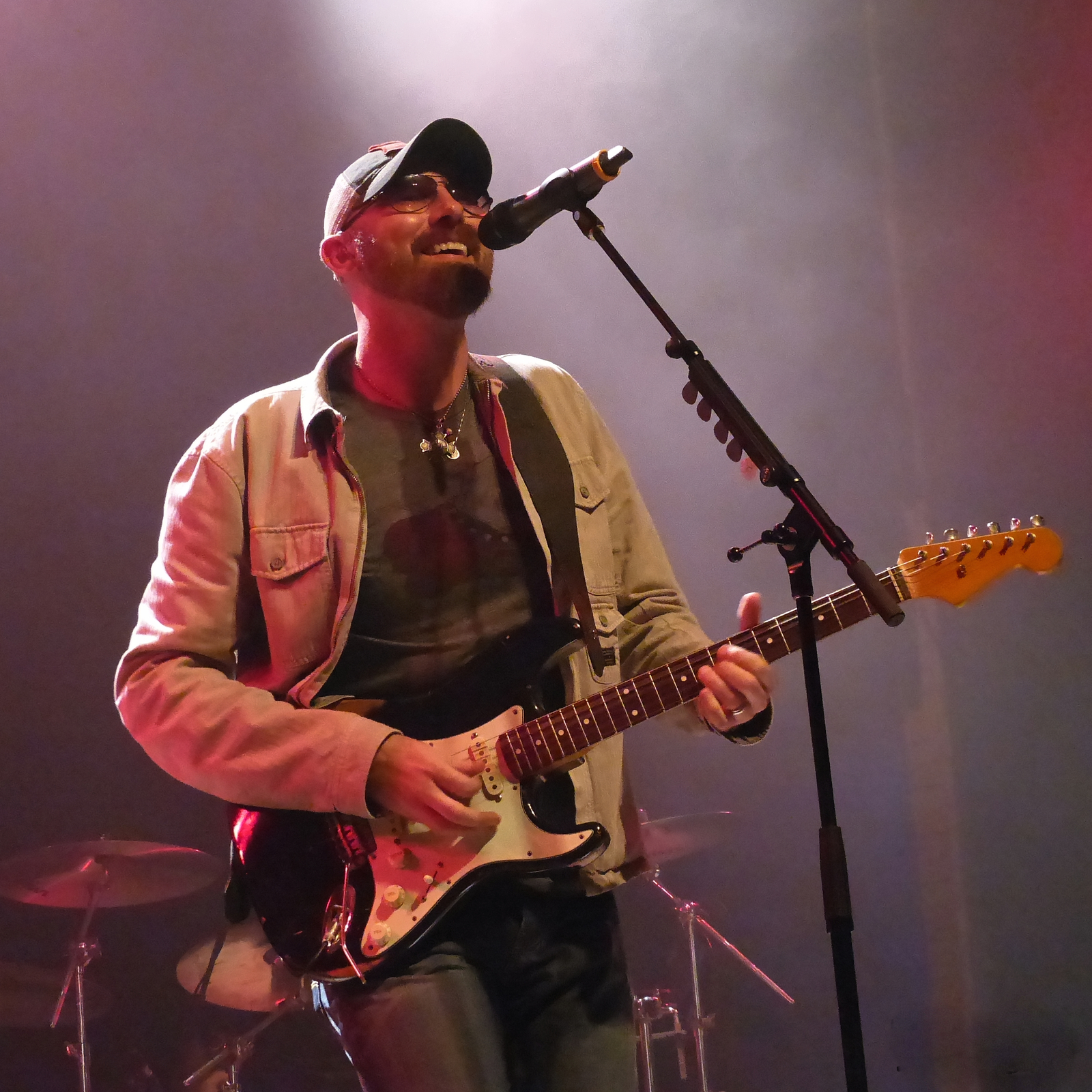 Corey Smith performing at House of Blues Sunset Strip in Hollywood CA on November 20th, 2013.